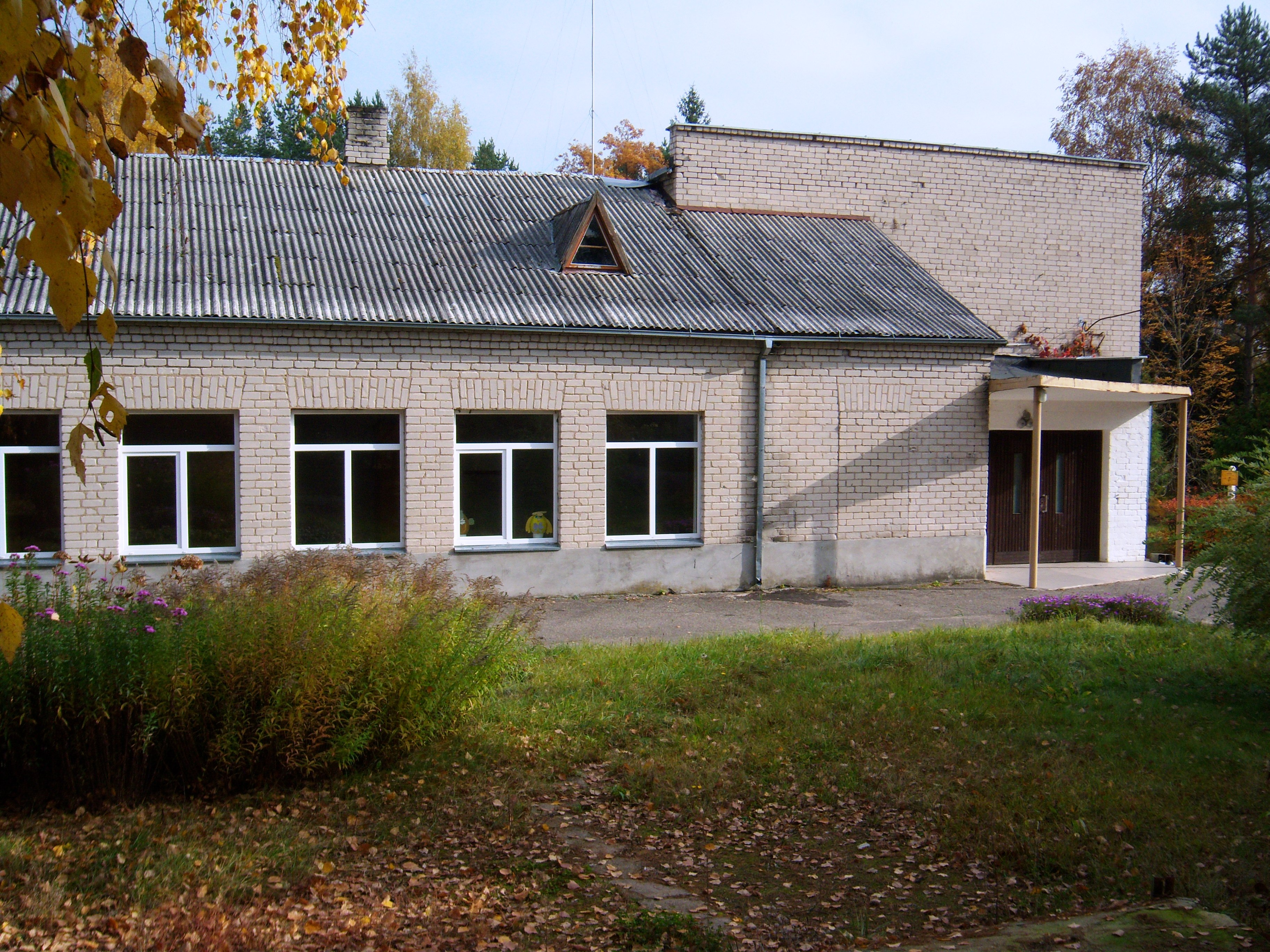 Main school, Skiemonys, Anykščiai District, Lithuania